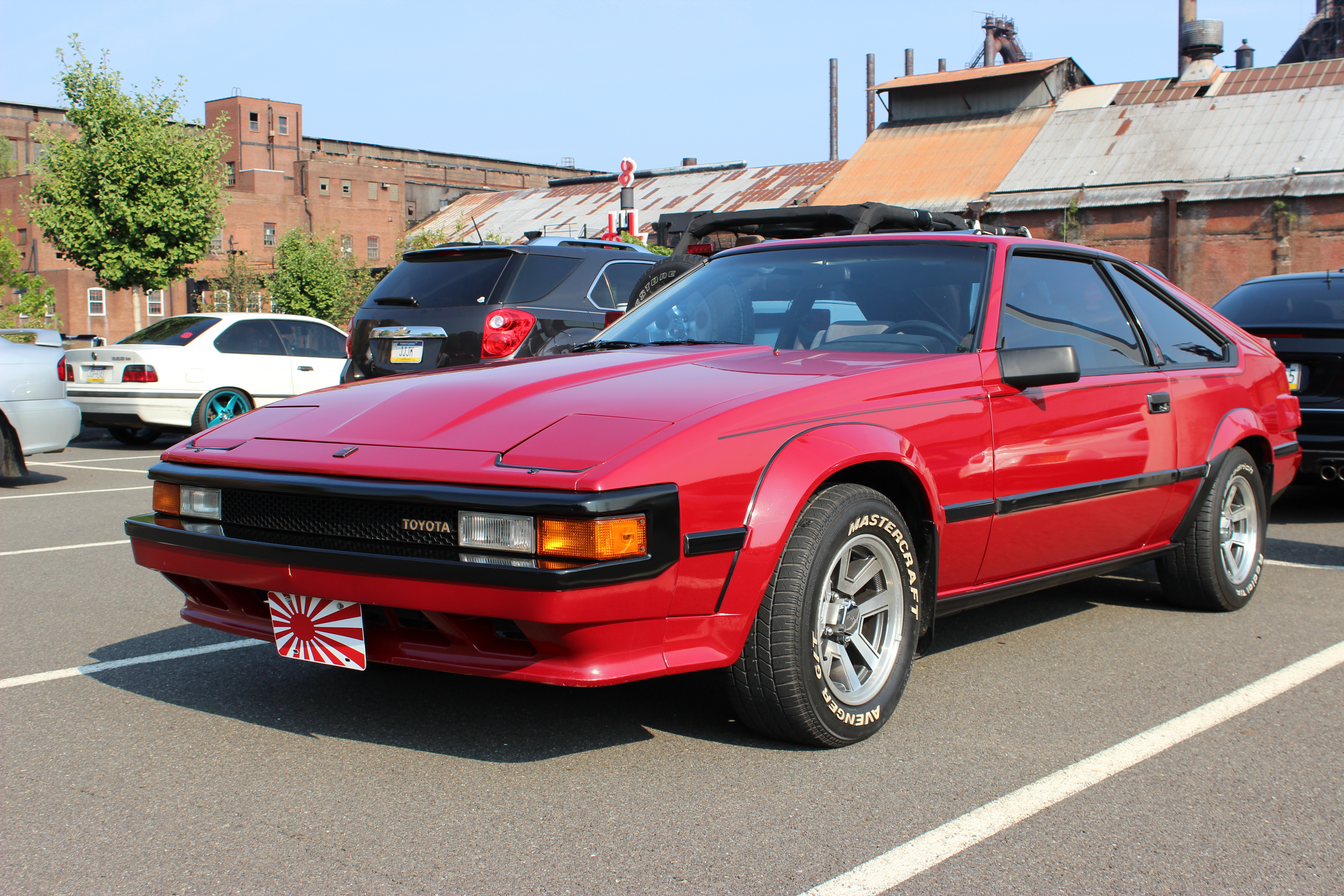 Toyota Supra MK2